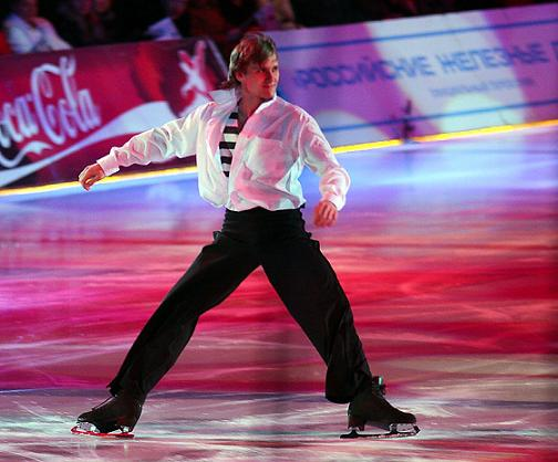 Andrei Griazev from ice show in Mytischi, Russia, March 2007. Photo taken by Olga Timokhova and permission was granted by her for use of the image here.